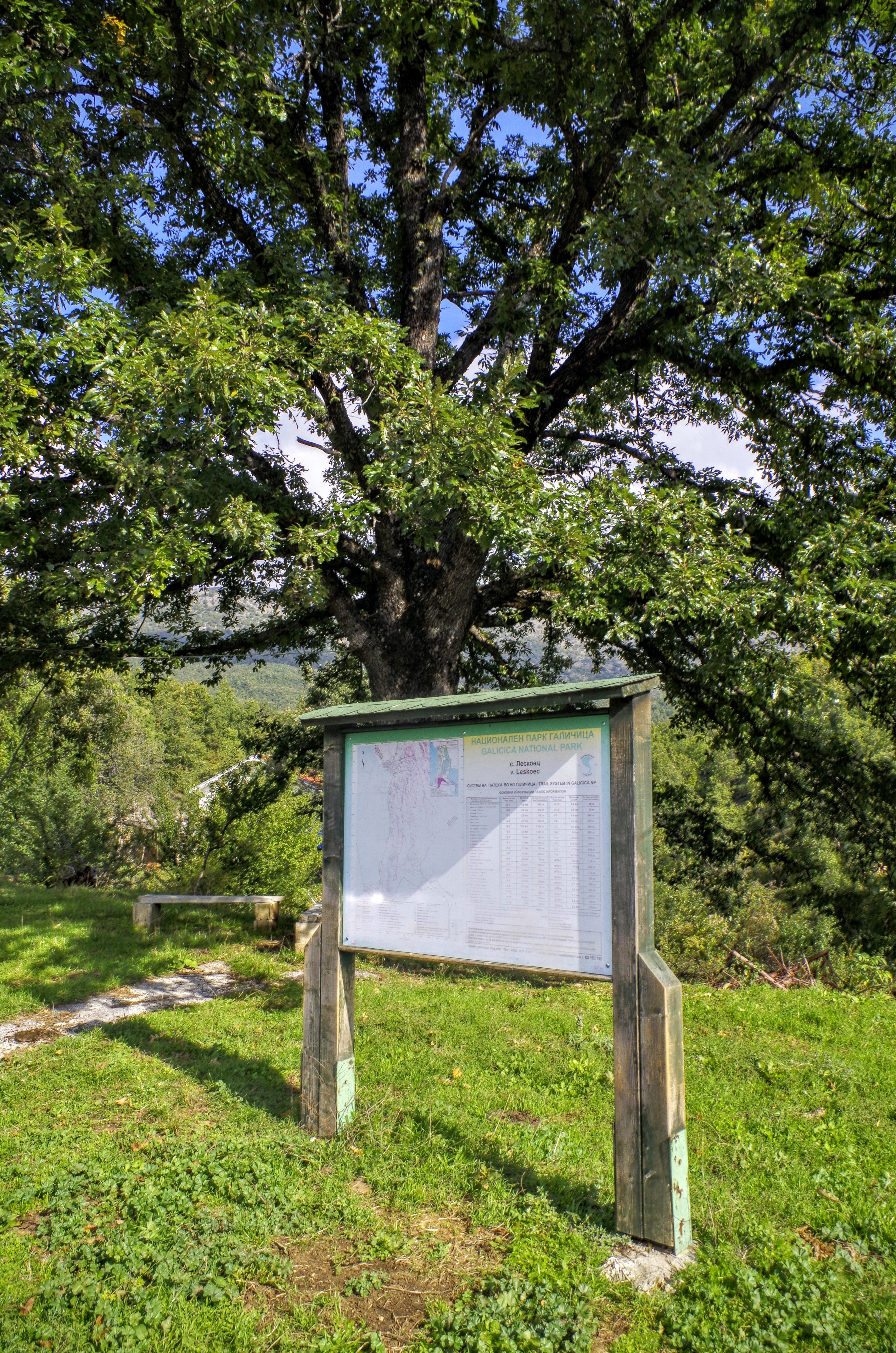 View of the village Leskoec, Resen